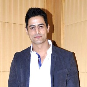 Indian television actor Mohit Raina at the DVD release of the TV show Devon Ke Dev - Mahadev. Raina plays the title role of Mahadev in the show that airs on Life Ok.